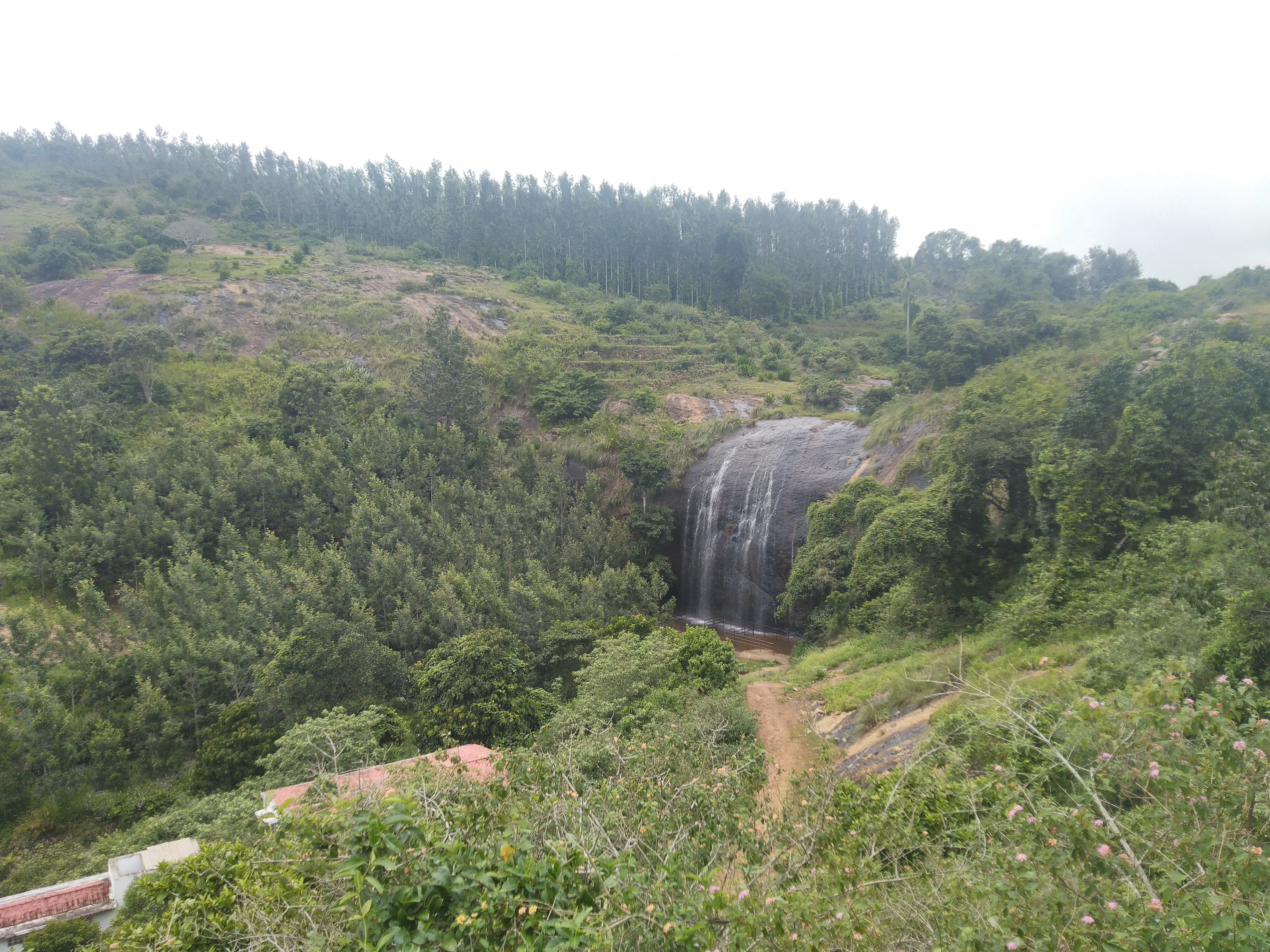 Namma Aruvi, a small waterfall at Semmedu, Kolli Hills, Namakkal